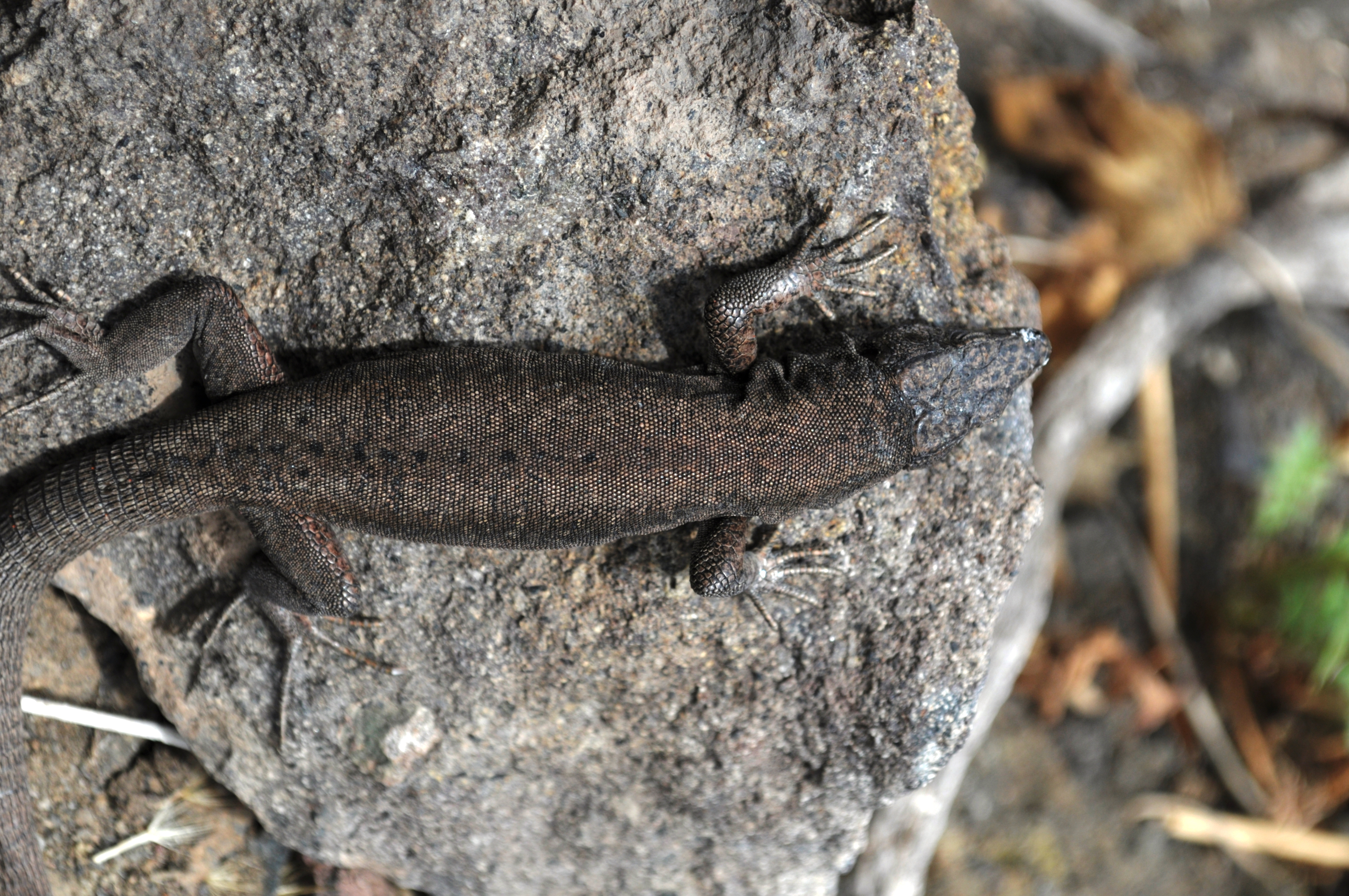 Detail of Podarcis raffonei cucchiarai shooted at La Canna, Filicudi (Eolian Islands)